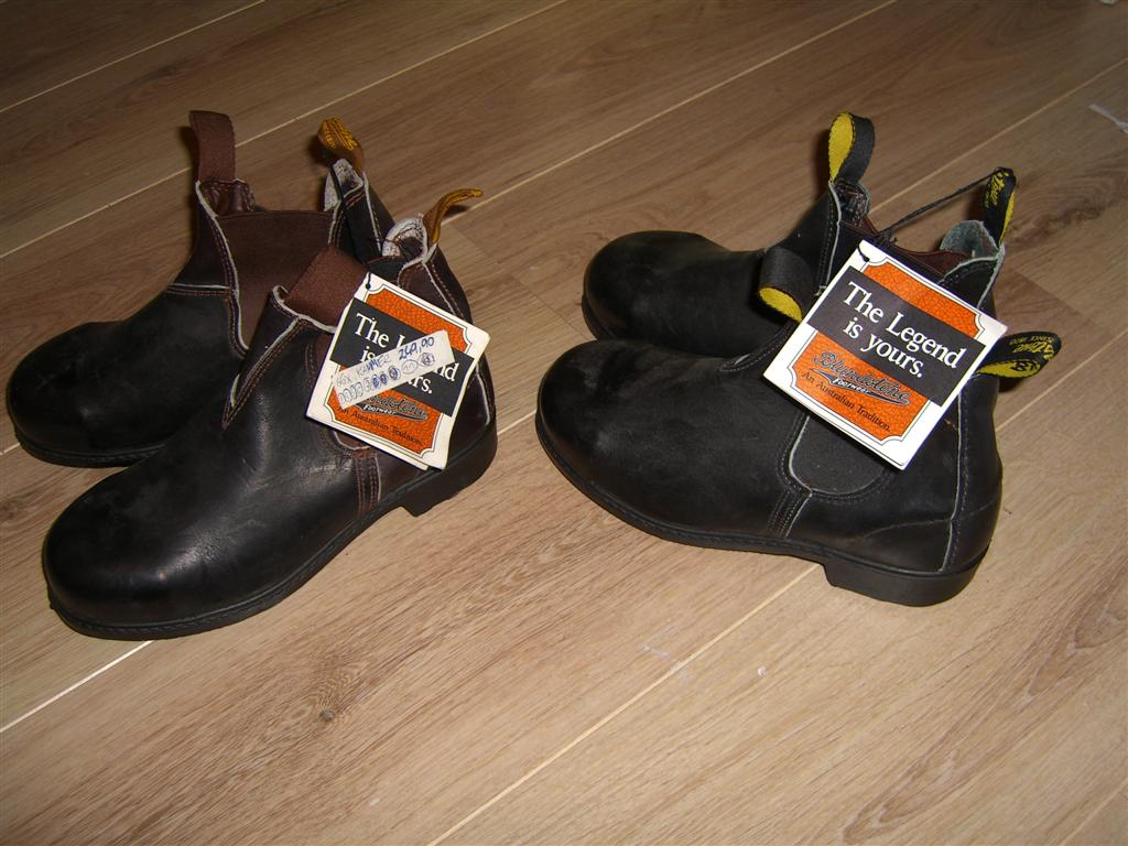 Last 2 known unworn BS 803 with unique dreadpattern and pvc sole on the planet. Picture taken in january 2007.